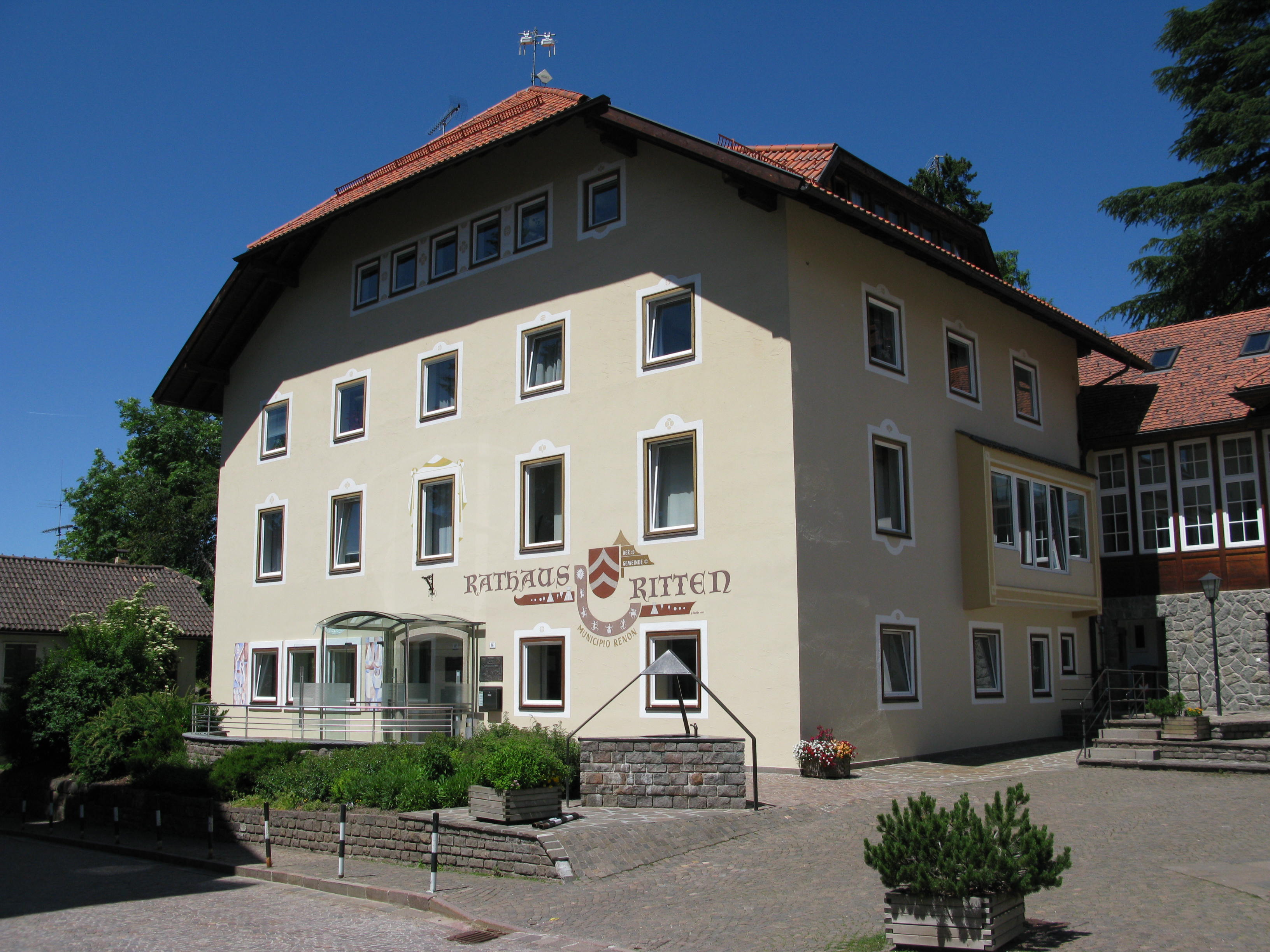 Town Hall, Ritten, Italy